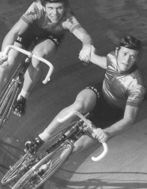 René Pijnen slings (with apparent determination) Guenther Haritz into the race during a madison race at the 1976 Muenchen Six-days